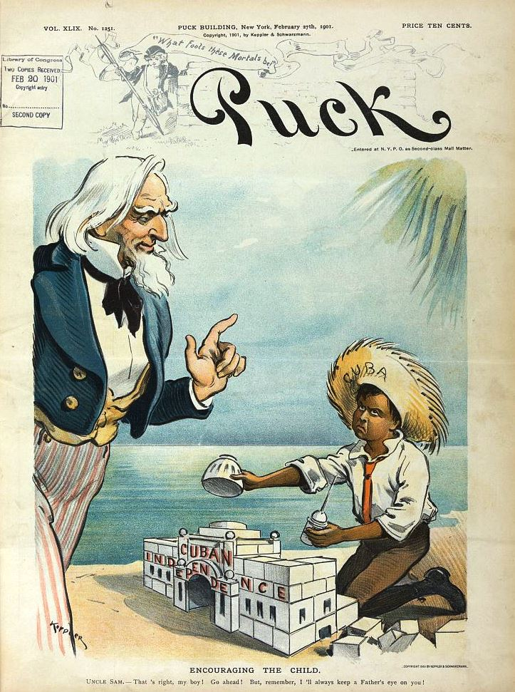 "Encouraging the child". Illustration shows Uncle Sam talking to a young boy labeled "Cuba" who is making a capitol building labeled "Cuban Independence" in the sand on a beach